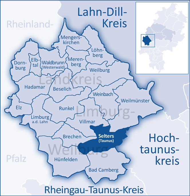 The map shows a district in the area of Limburg-Weilburg